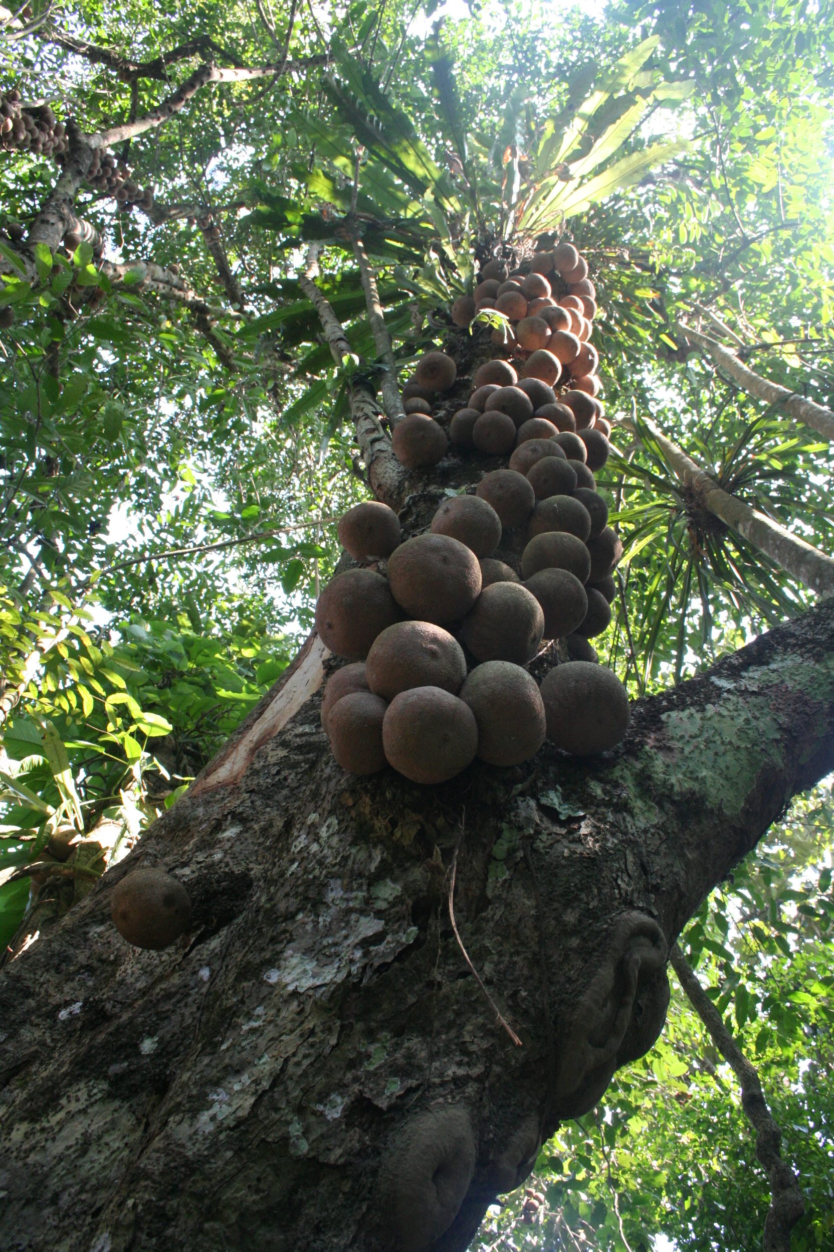 Gynocardia odorata from Pakke Tiger Reserve in Northeast India.